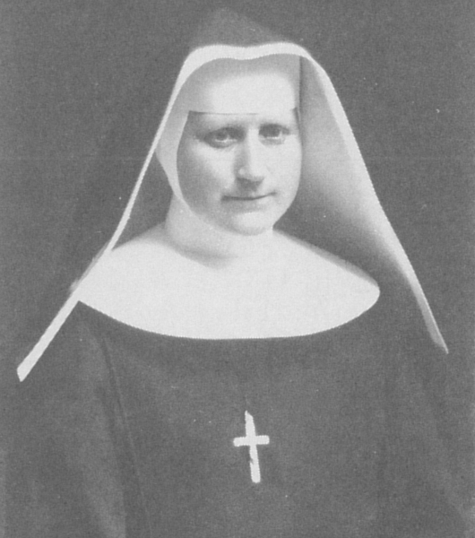 Xavera Rehme (Nun, educator from Germany who worked in Japan, *1889, †1982)